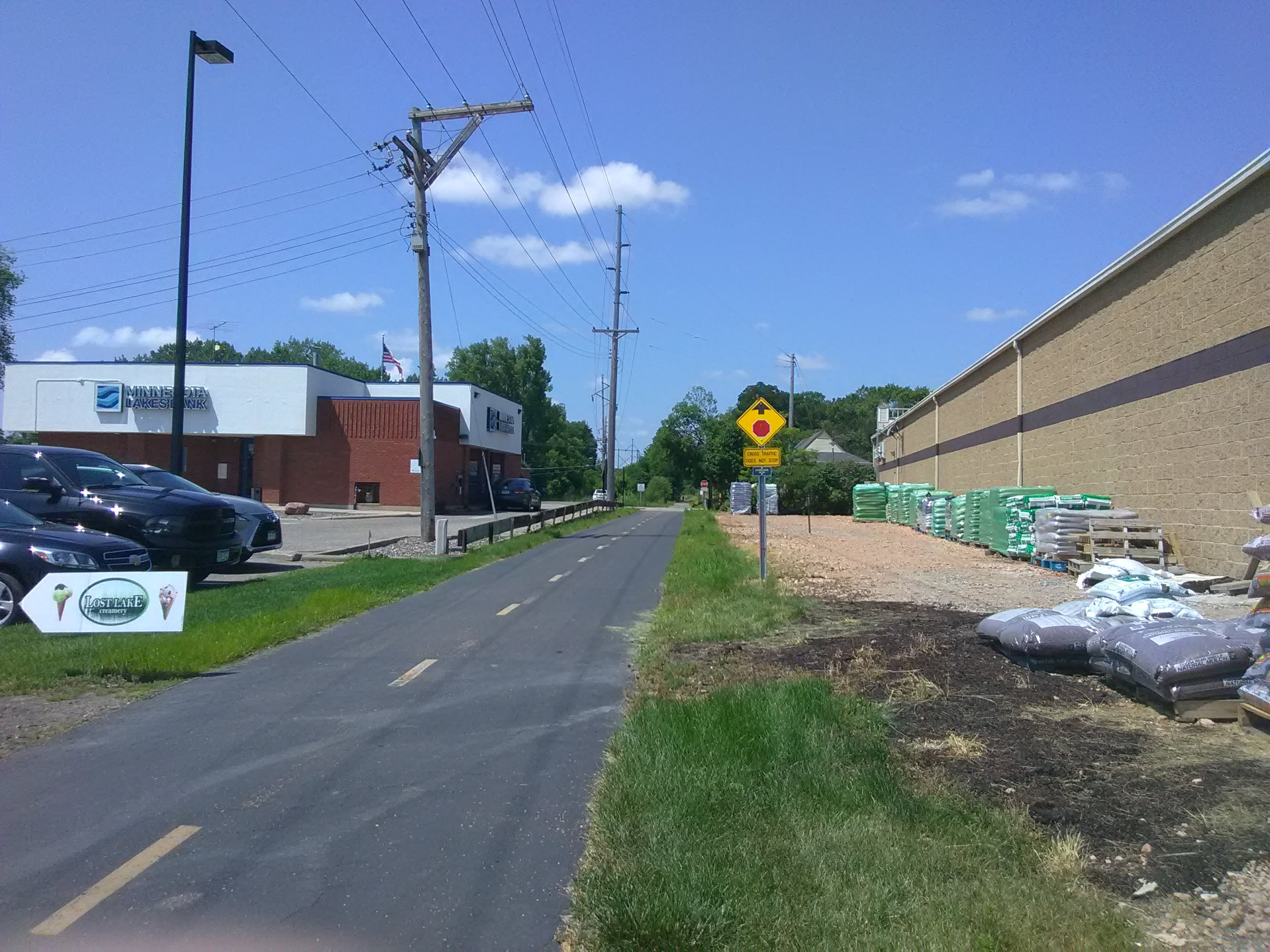 Looking east into Mound